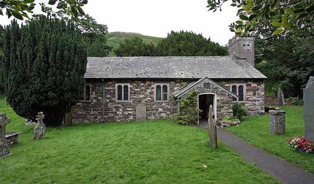 St John's in the Vale & Wythburn, Keswick, Cumbria